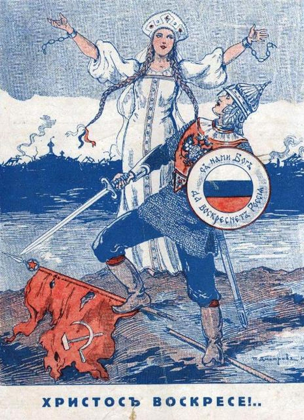 Caption below: Christ is Risen. Caption on shield: God is with us, Let Russia rise again. Cover from the New Year issue of the magazine "Chasovoy". C. 1932